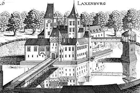 Altes Schloss in Laxenburg, etching from 17-18th century.